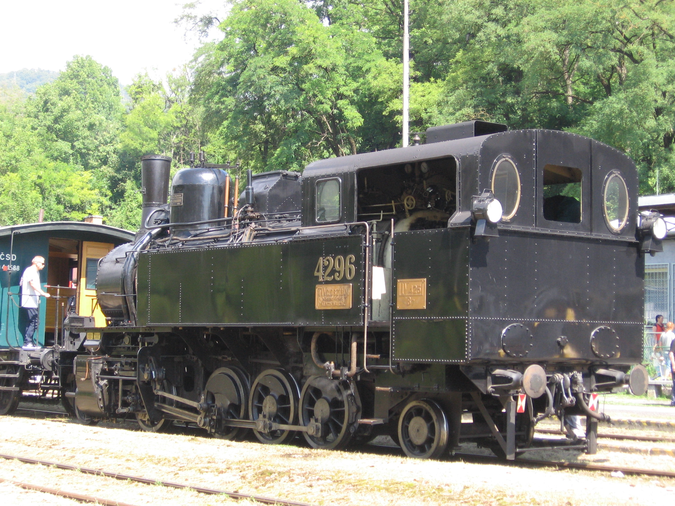 Steam cog locomotive MÁV 4296